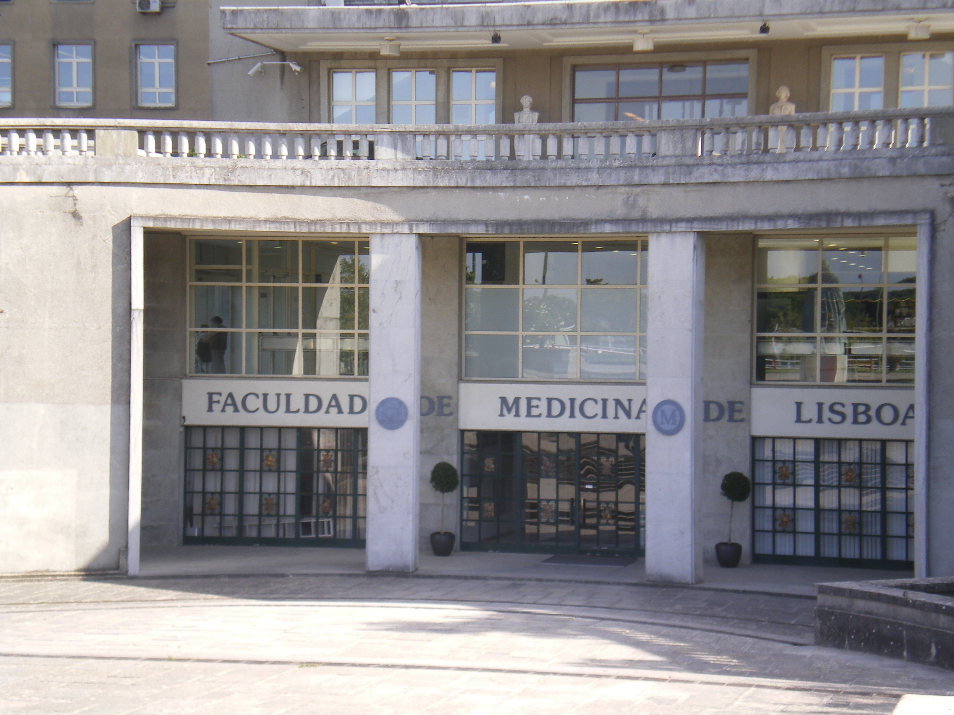 faculty of medicine of the university of lisbon, entrance, main building